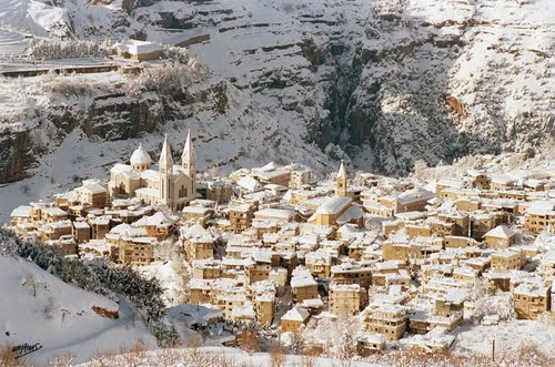 bsharri under the snow